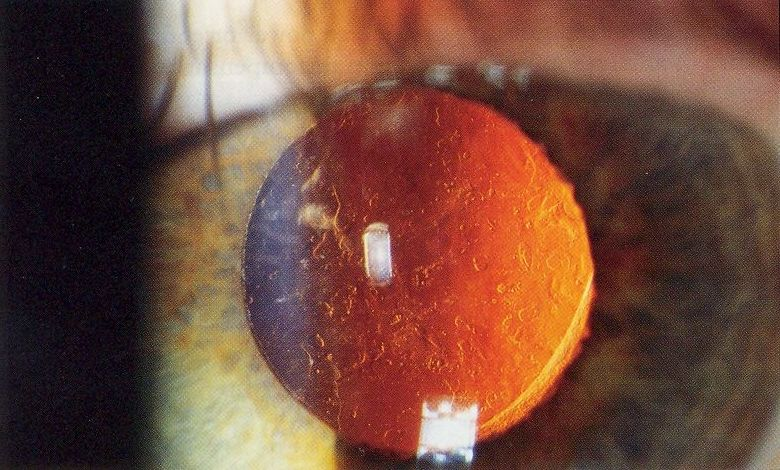 Aftercataract - Posterior capsular opacification post-cataract surgery(seen on retroillumination)